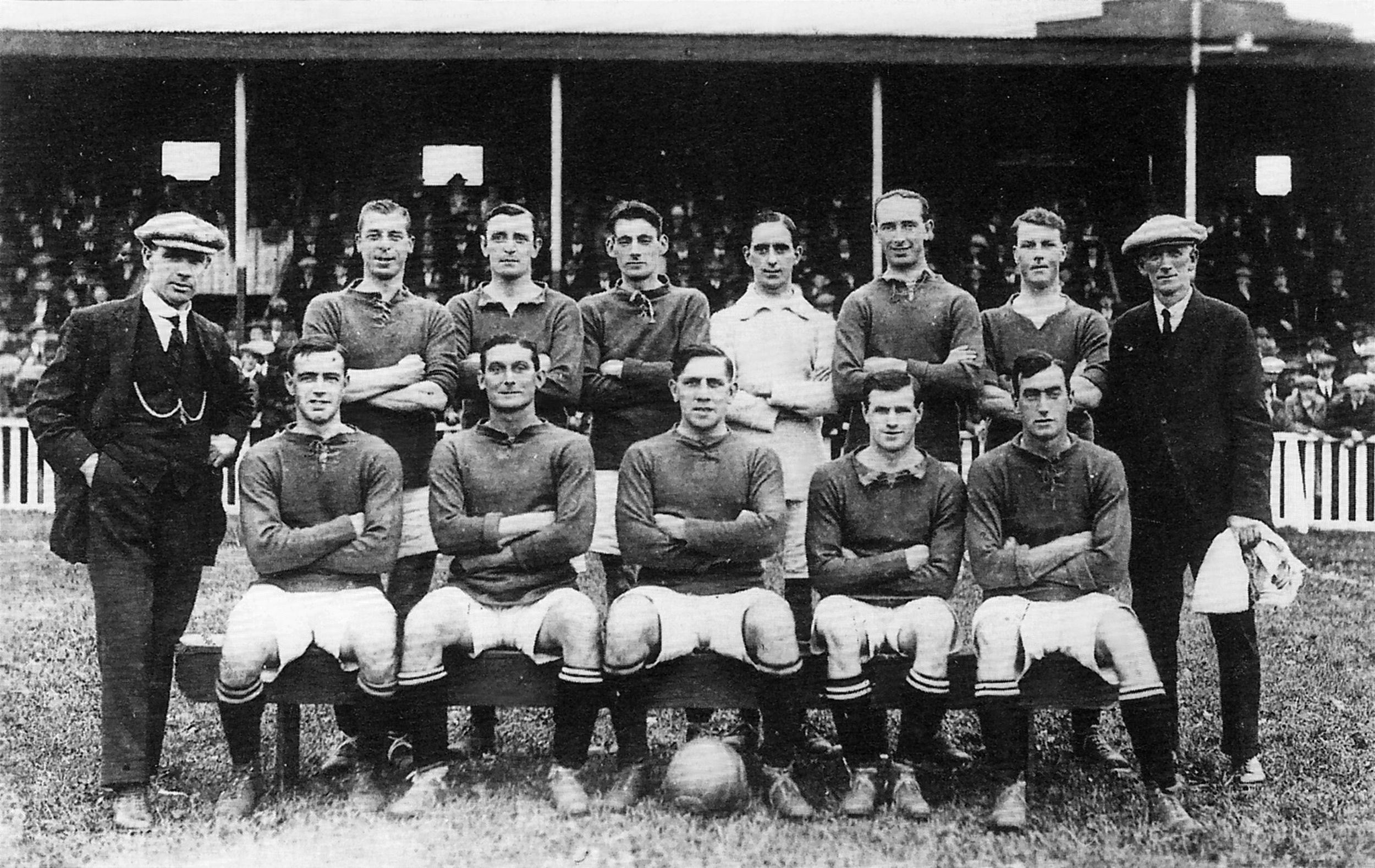 Tranmere Rovers F.C. squad squad on 27 August 1921, before their first Football League match. L-R, back: Cooke, Campbell, Milnes, Heslop, Bradshaw, Stuart, Grainger, Gaskill. Front: Moreton, Groves, Hyam, Ford, Hughes Three contemporary sources, written by Tranmere Rovers historians, contain this image: Bishop, Peter (1 November 1998) Tranmere Rovers Football Club, Images of England, Stroud: Tempus ISBN: 978-0752415055. Upton, Gilbert; Wilson, Steve (November 1997) Tranmere Rovers 1921–1997: A Complete Record ISBN: 978-0951864821. Upton, Gilbert; Wilson, Steve; Bishop, Peter (24 July 2009) Tranmere Rovers: The Complete Record, Breedon ISBN: 978-1859837115. Bishop (1998) states that its images appeared originally in the Birkenhead News or Liverpool Echo. None of the sources were found to contain any further details of the photograph's provenance.